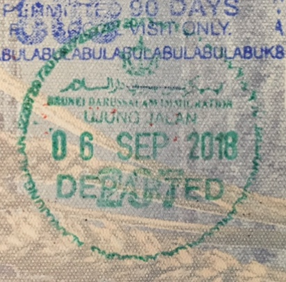 Exit stamp out of Brunei Darussalam at the Ujung Jalan, Temburong land border crossing on 06 Sep, 2018.